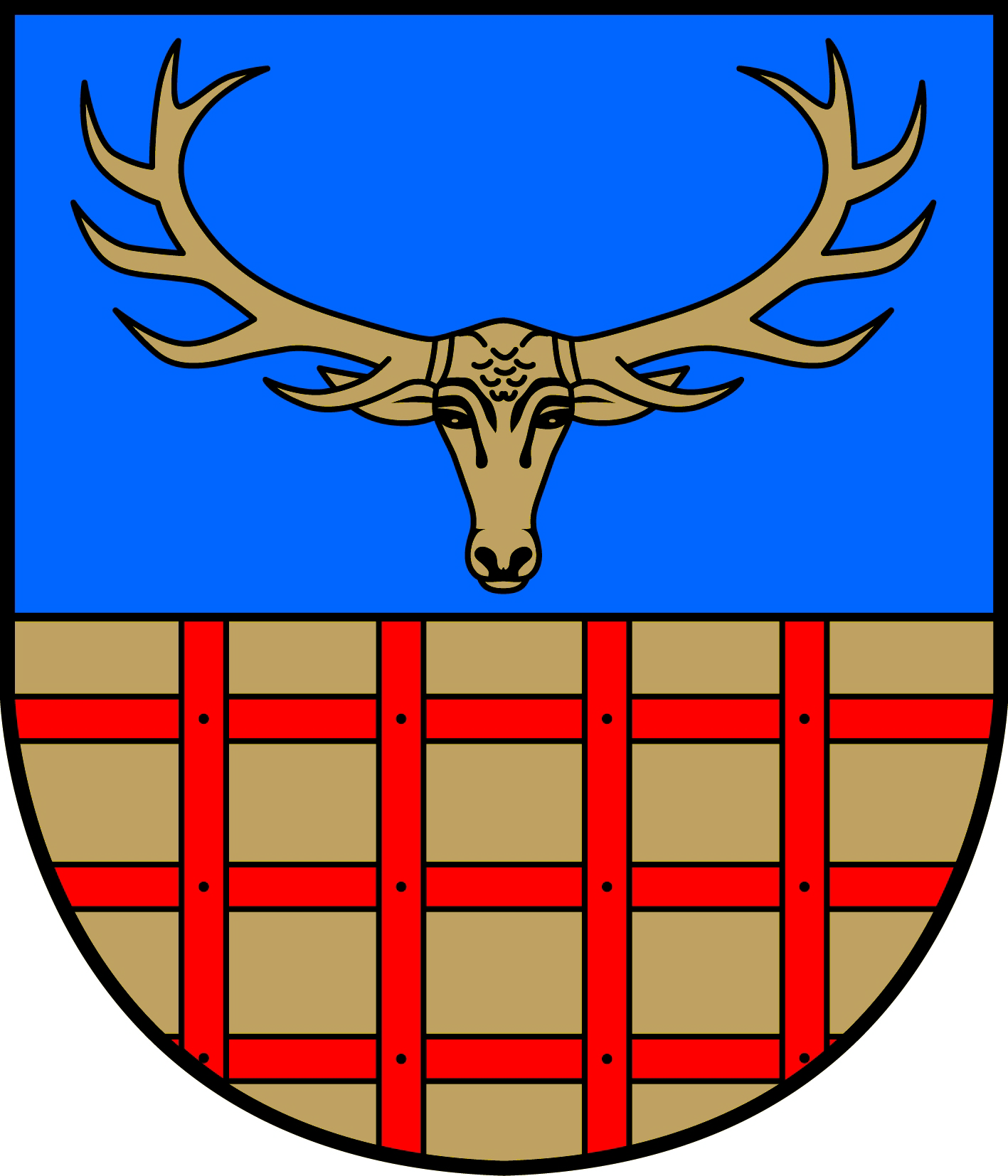 Coat of arms of Edelschrott, Styria